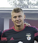 SL Benfica B line-up against FC United of Manchester on 29 May 2015